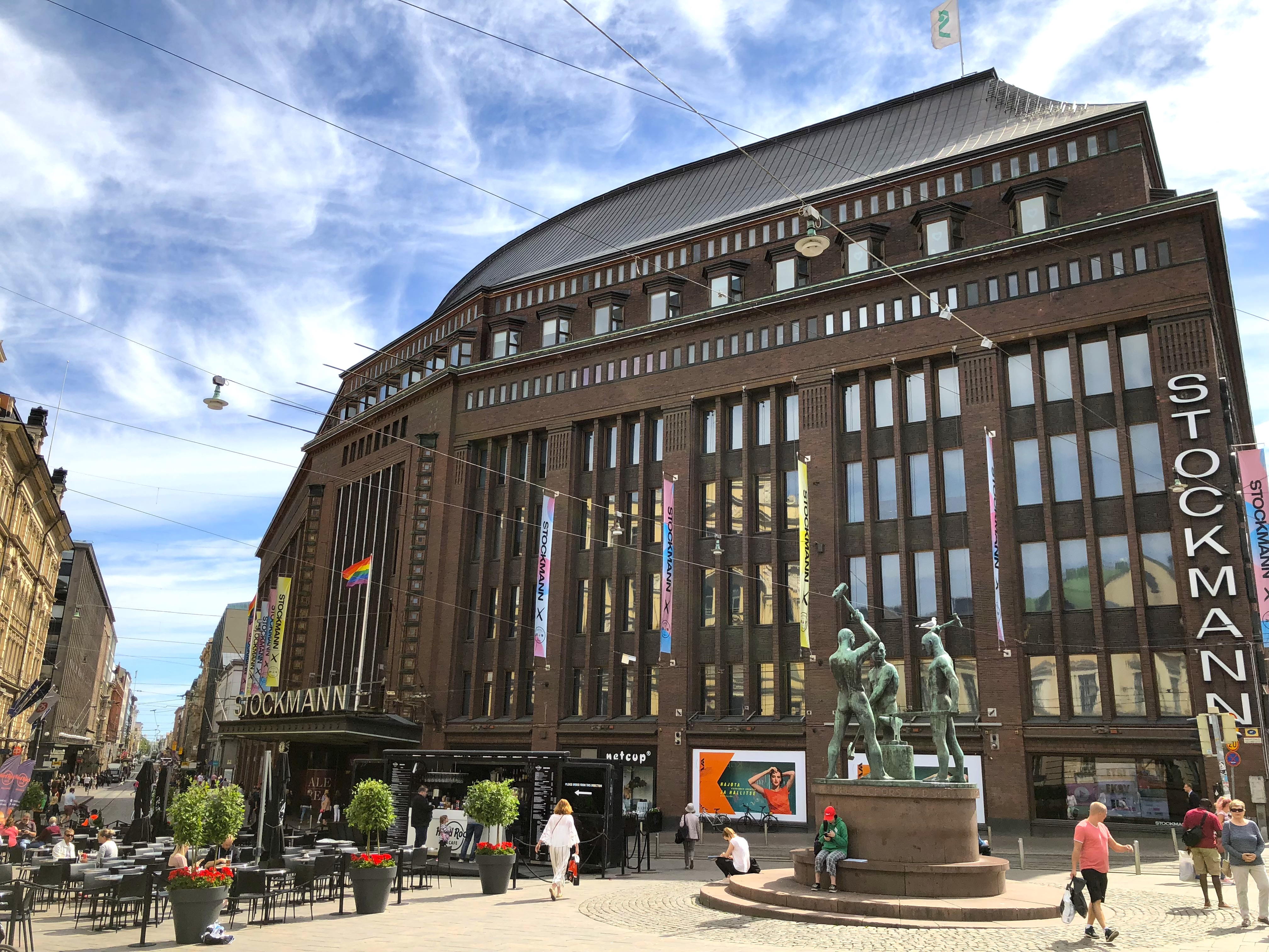 Stockmann during Helsinki Pride in June 2018